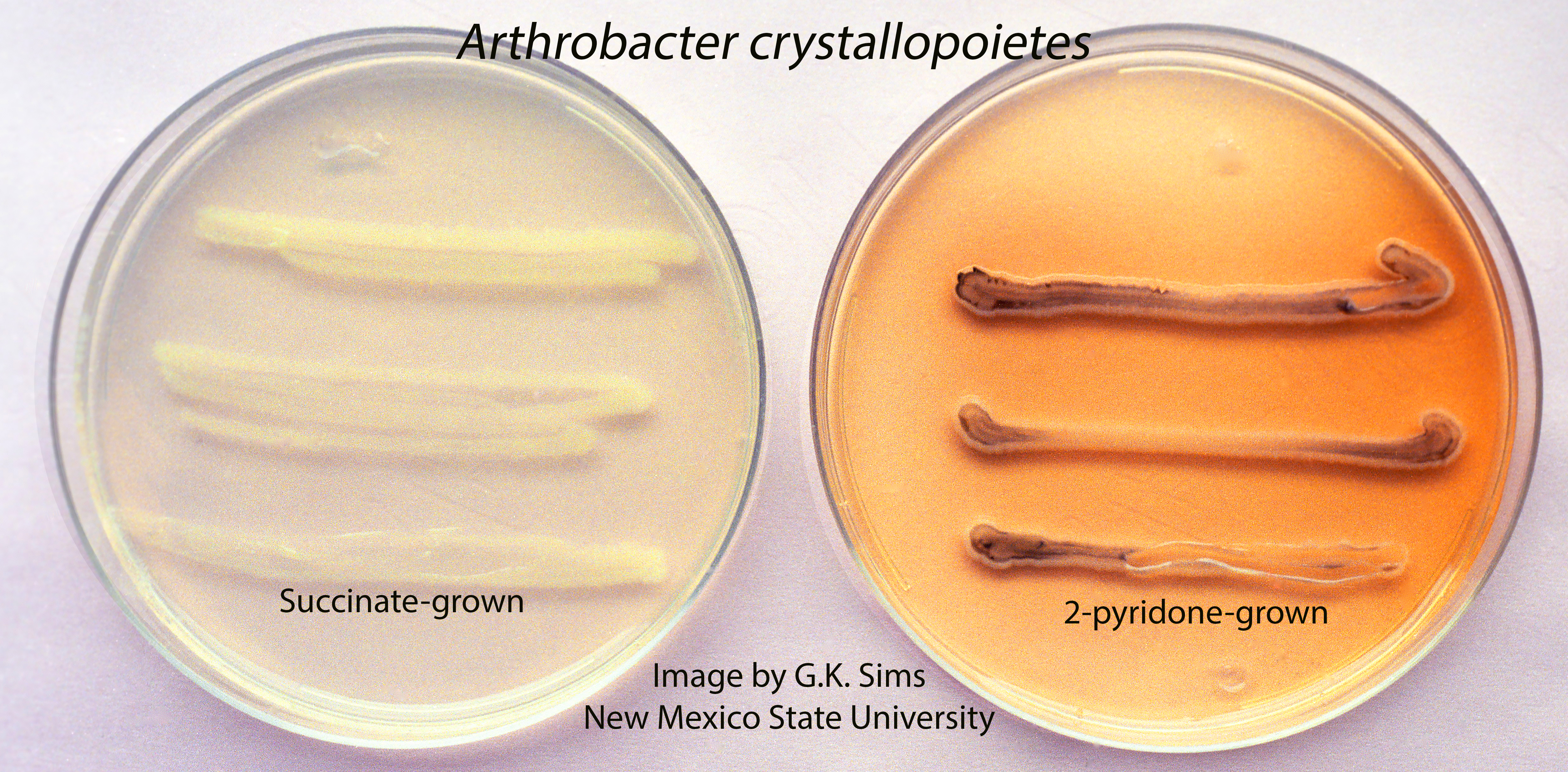 A. crystallopoietes type strain (ATCC 15481) grown on 2-pyridine medium (right) versus succinic acid medium (left).